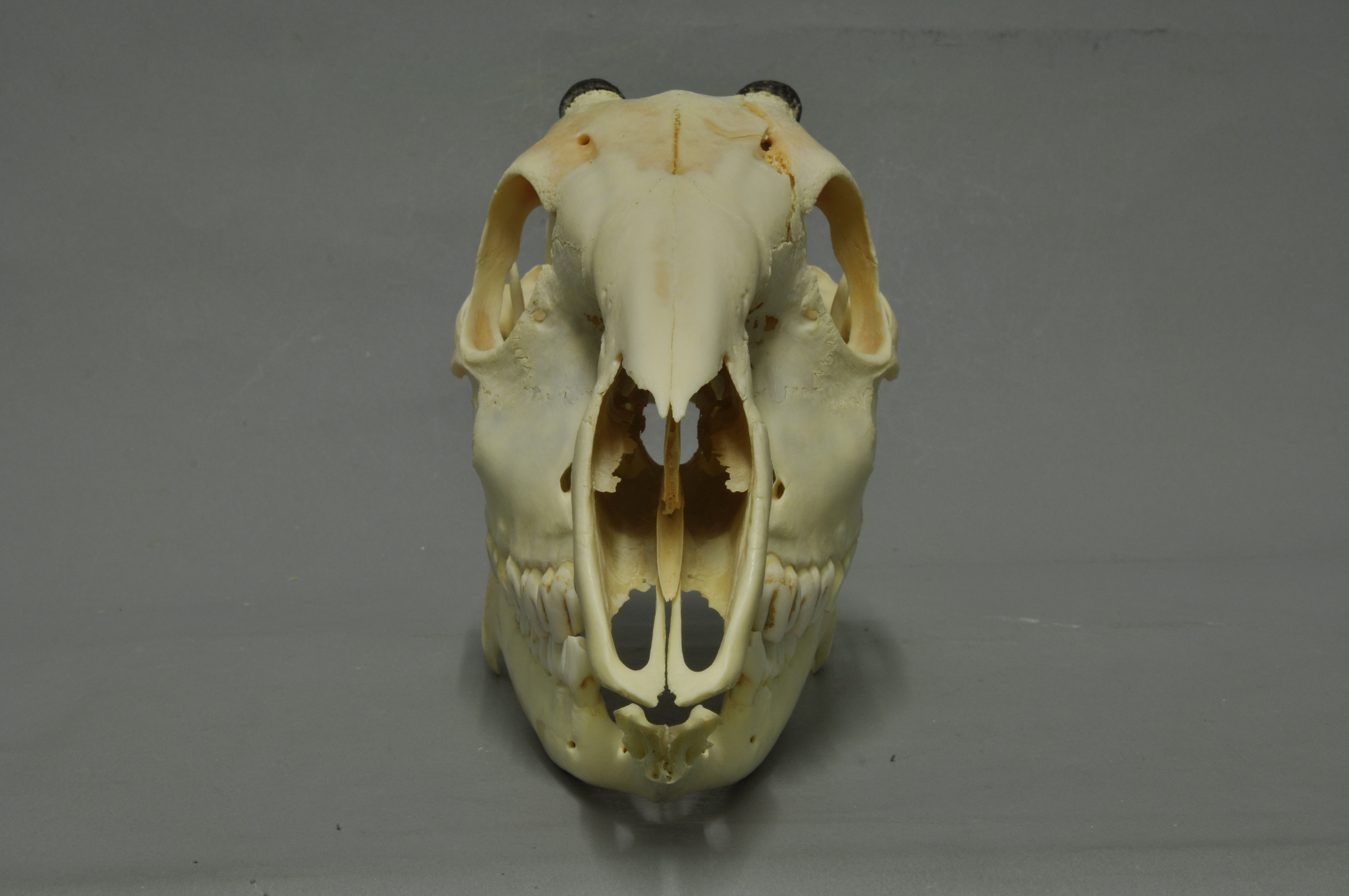 Yellow-backed duikerCephalophus silvicultor , skull, Coll. Museum Wiesbaden